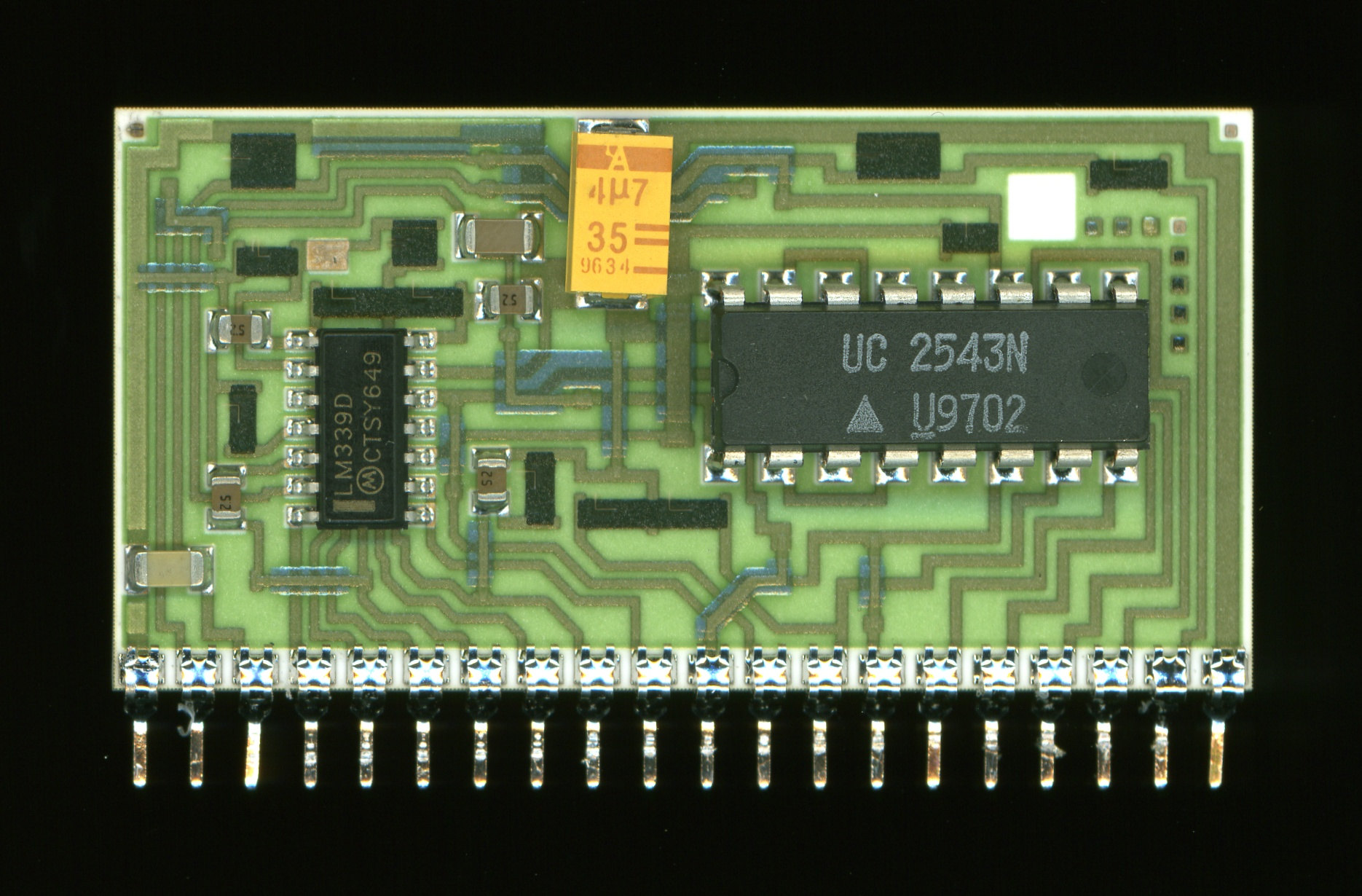 Example of a hybrid integrated circuit on a ceramic substrate. Clearly visible are the multiple layers of the interconnects and the blue insulating layers. The dark rectangles are printed resistors, and the thin laser-cut slices used for resistance matching.